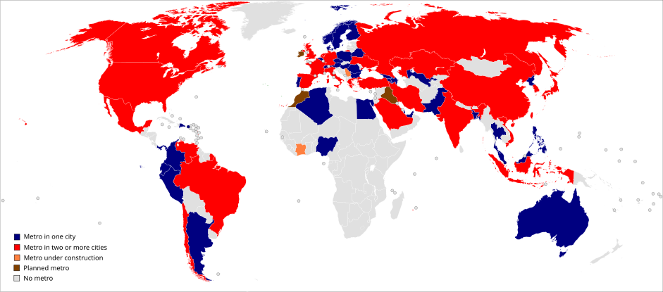 Countries where there is a metro network. Metro in one city Metro in two or more cities Metro under construction Planned metro No metro